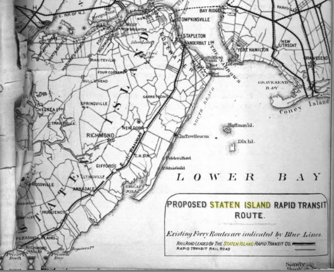 This is a map of the planned route of the Staten Island Rapid Transit Railroad-a plan spearheaded by Erastus Wiman. The line would run from the Arthur Kill, across the North Shore of Staten Island, through St. George, before branching off. One branch would be the old Staten Island Railway line to Tottenville, while the other would go to South Beach on the East Shore of the Island. This map came out of a document involving the mortgage of the railroad.